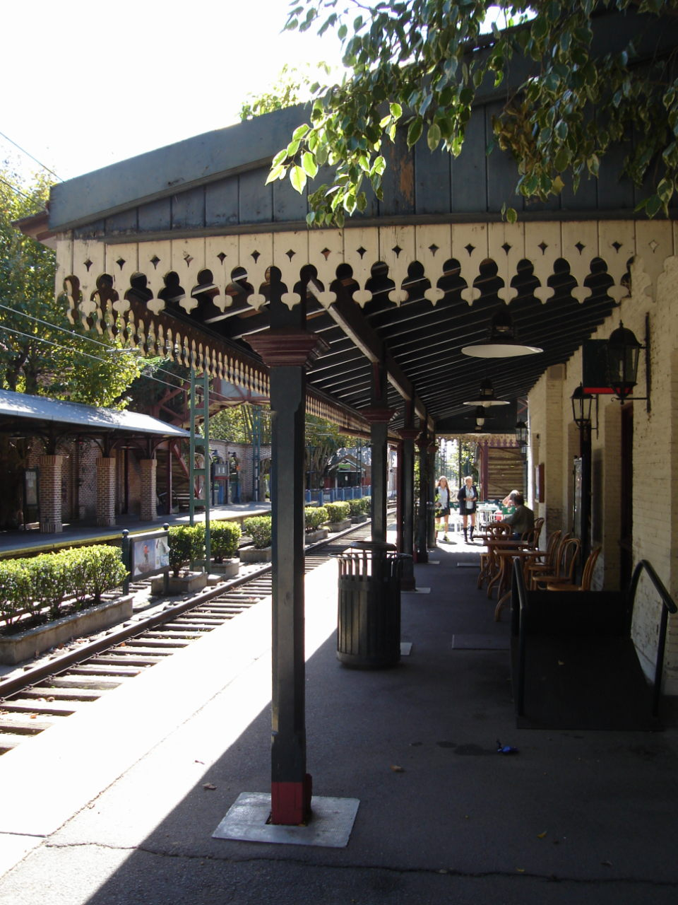 Borges station of Tren de la Costa, with its classic British architectural style. The original buildings were preserved in all the stations of the line.